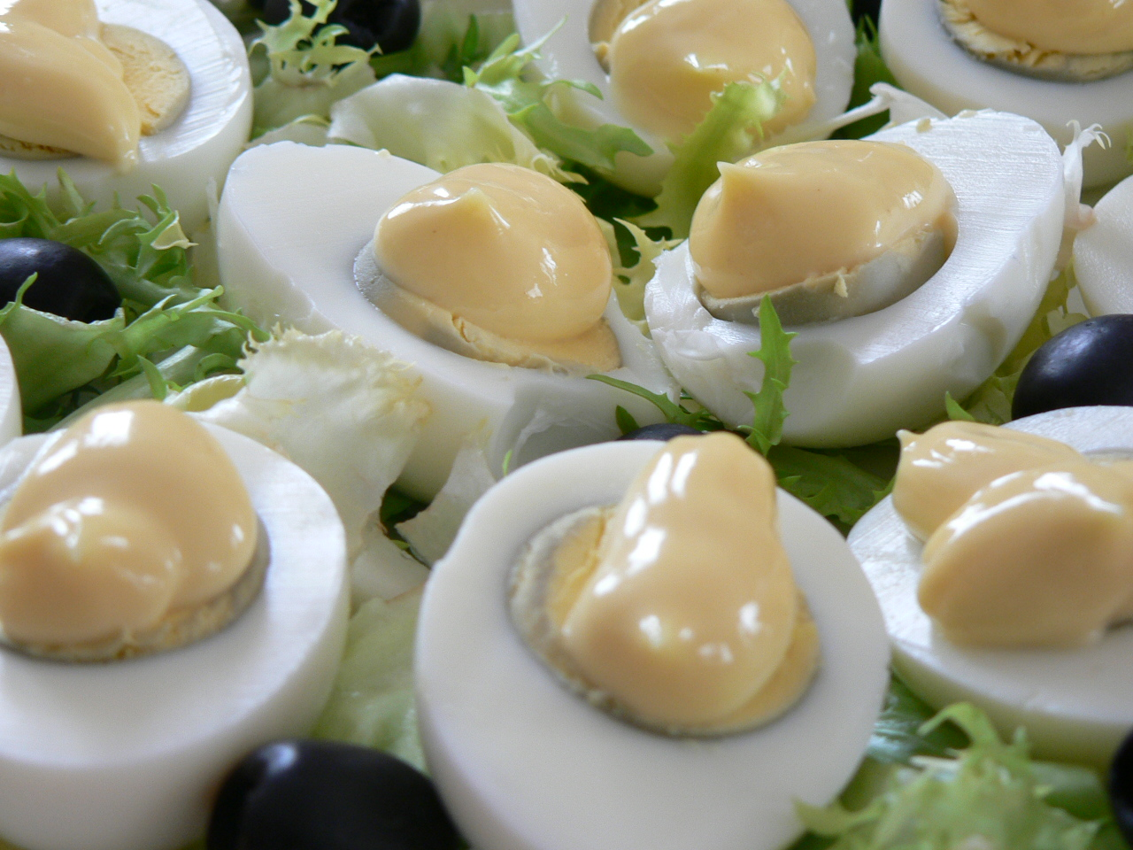 Eggs-Mayonnaise